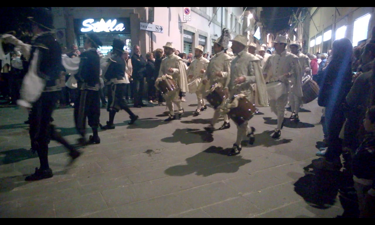 Rione pugilli, settembre 2014